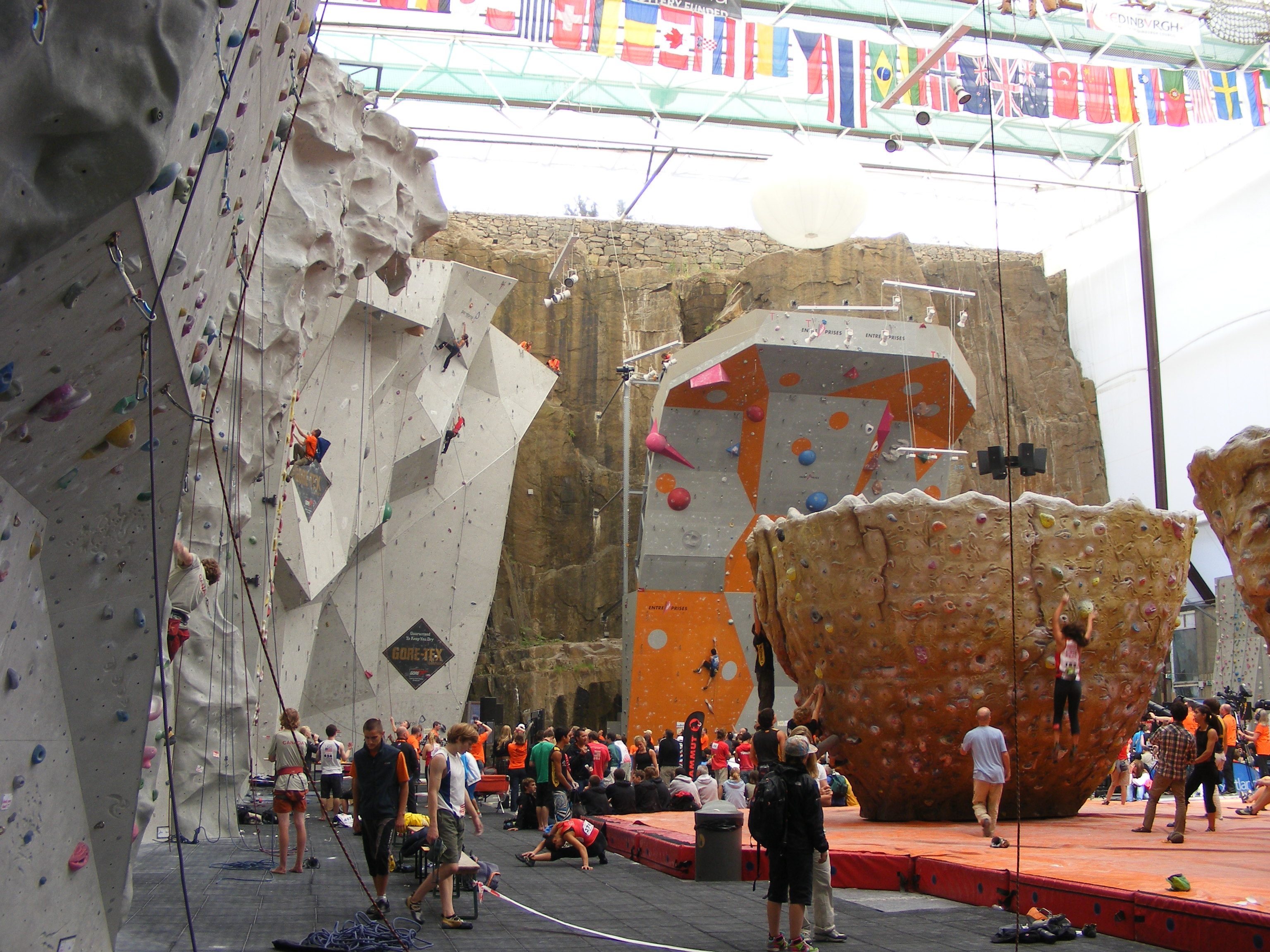 Interior shot of Edinburgh International Climbing Arena. Ratho, near Edinburgh, Scotland.